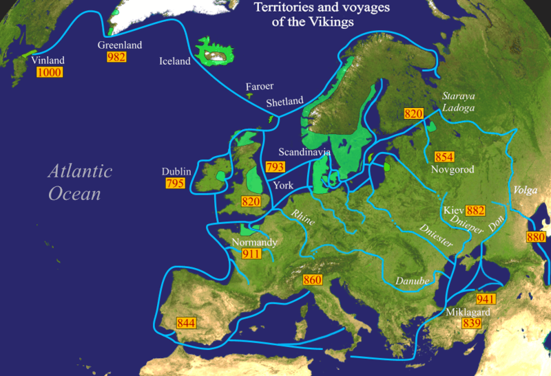 light blue: Itineraries of the Vikings, light green: main settlement areas, in the first millennium